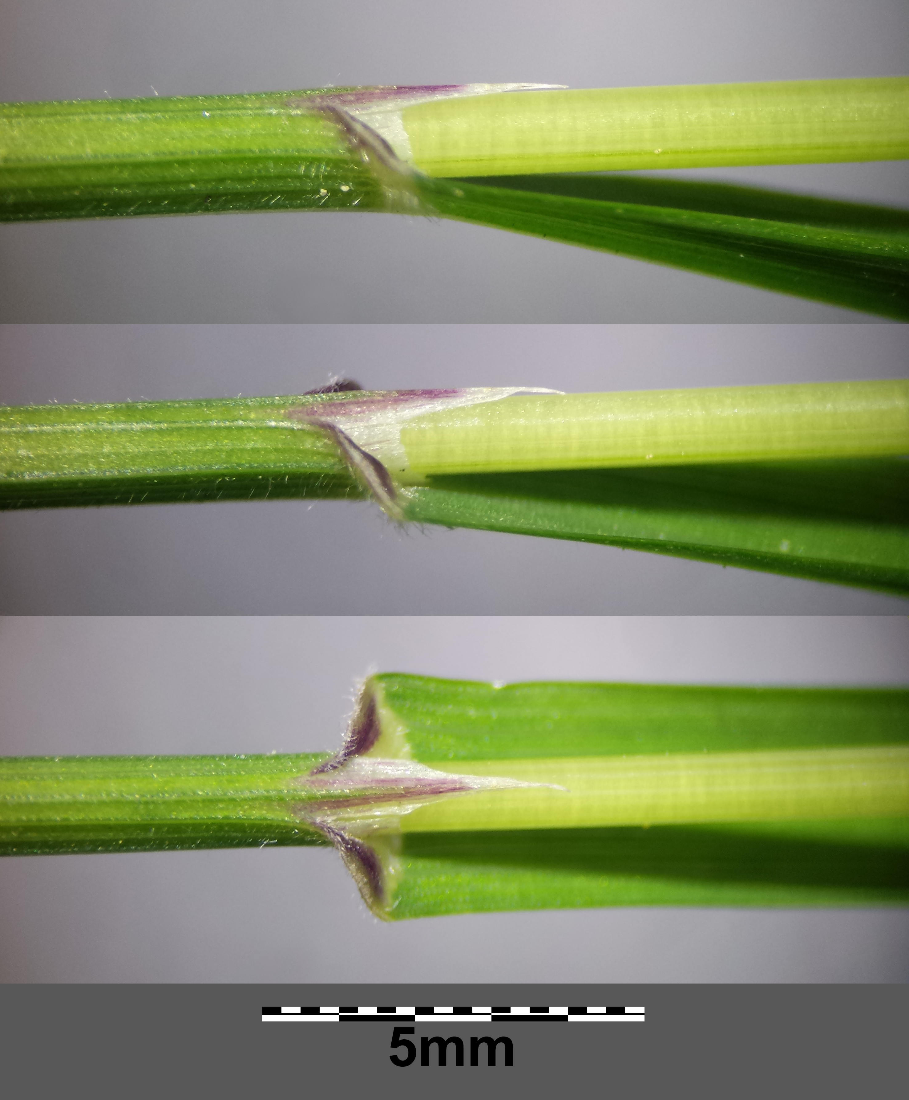 Stem with leaf and ligule Taxonym: Melica uniflora ss Fischer et al. EfÖLS 2008 ISBN 978-3-85474-187-9 Location: Praunsberger Wald near Niederhollabrunn, district Korneuburg, Lower Austria - ca. 300 m a.s.l. Habitat: dedicious forest